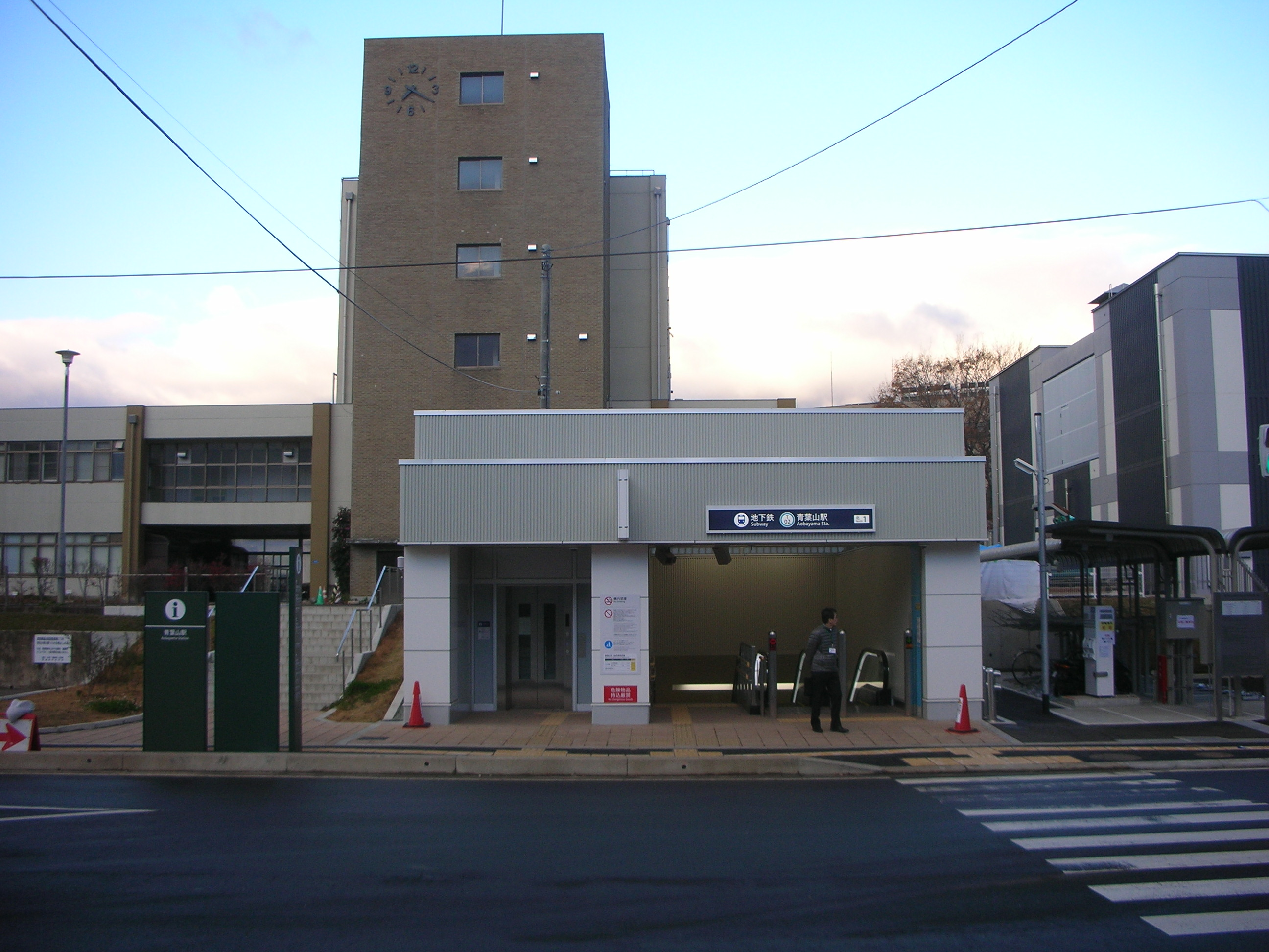 Aobayama Station